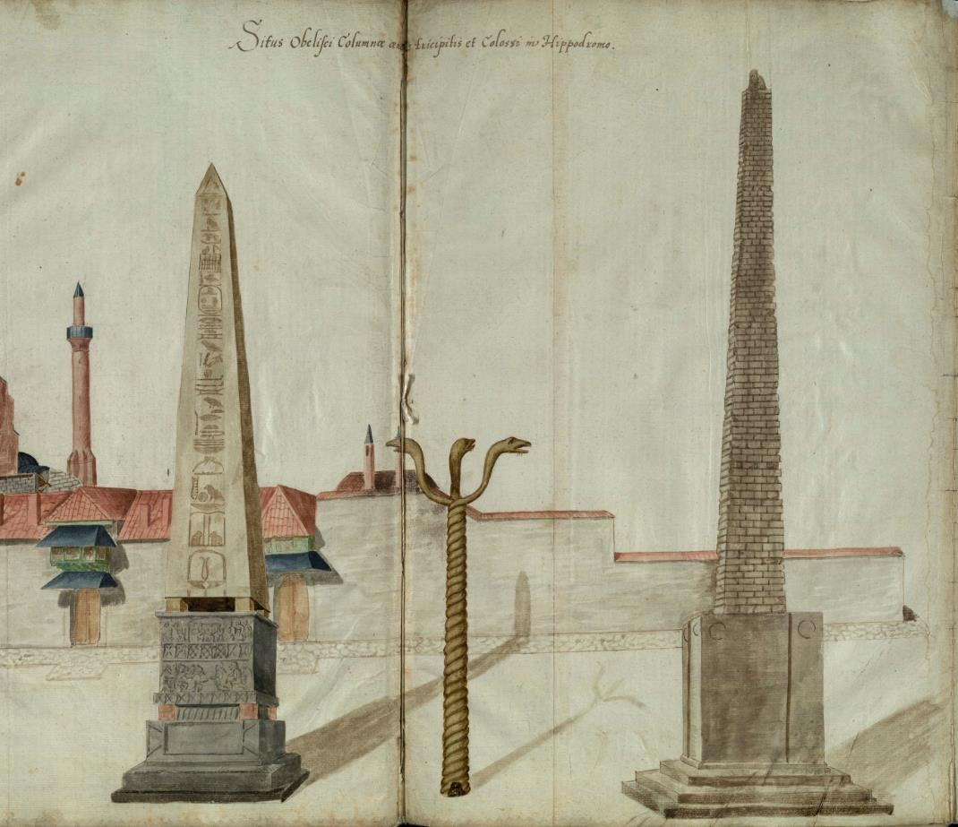 Obelisk of Theodosius, Serpent Column, Walled Obelisk